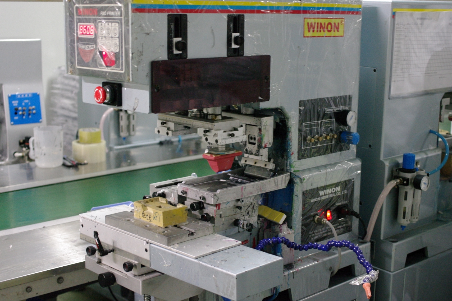 pad printing machine